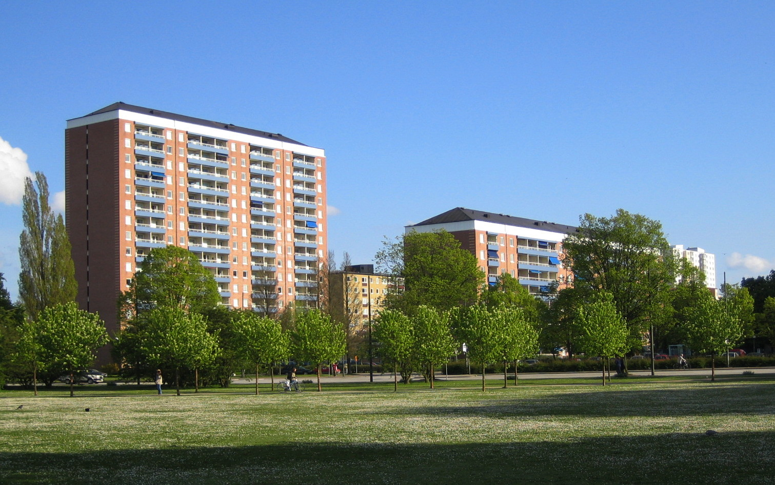 Borgmästargården in Malmö, Sweden from Pildammsparken.